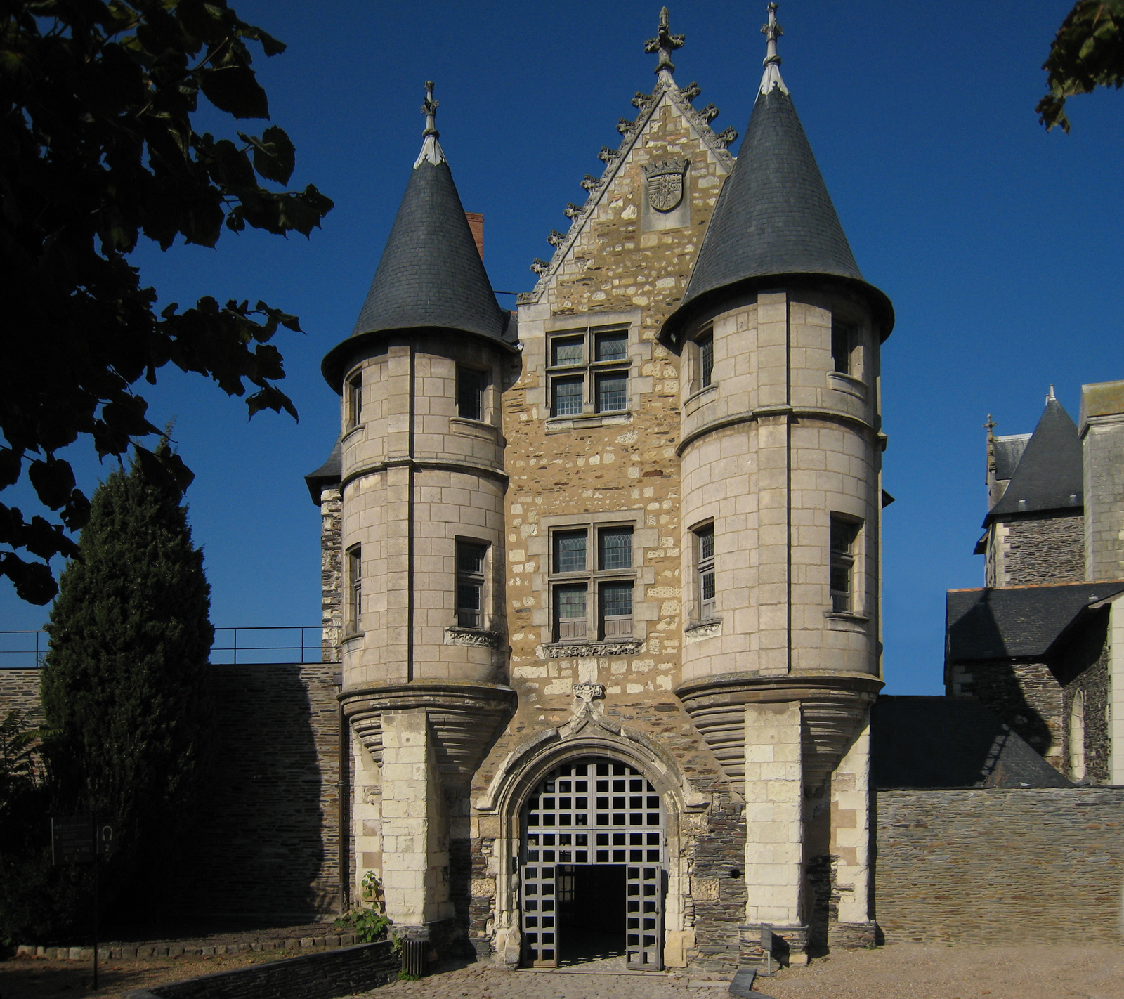 Kirundi: The so called chatelet is the entrance to the lordly area of the Castle of Angers in the county of Maine-et-Loire/France.